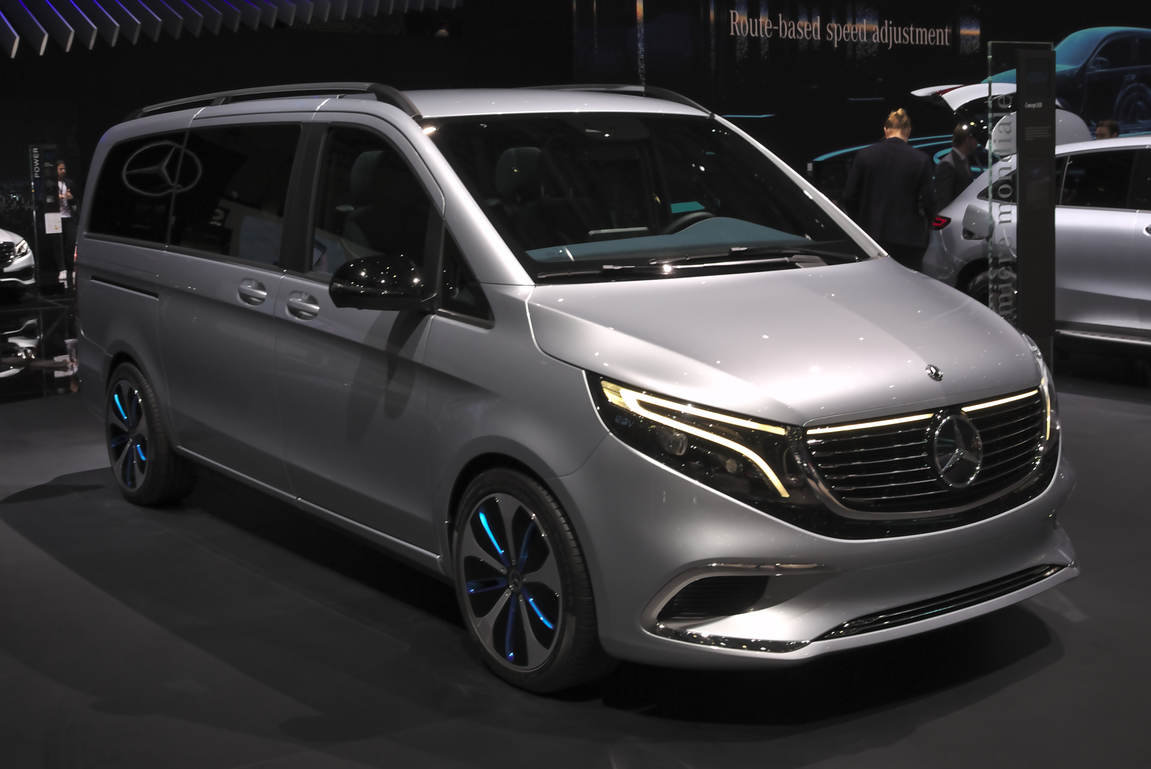 Mercedes-Benz EQV Concept at Geneva Motor Show 2019